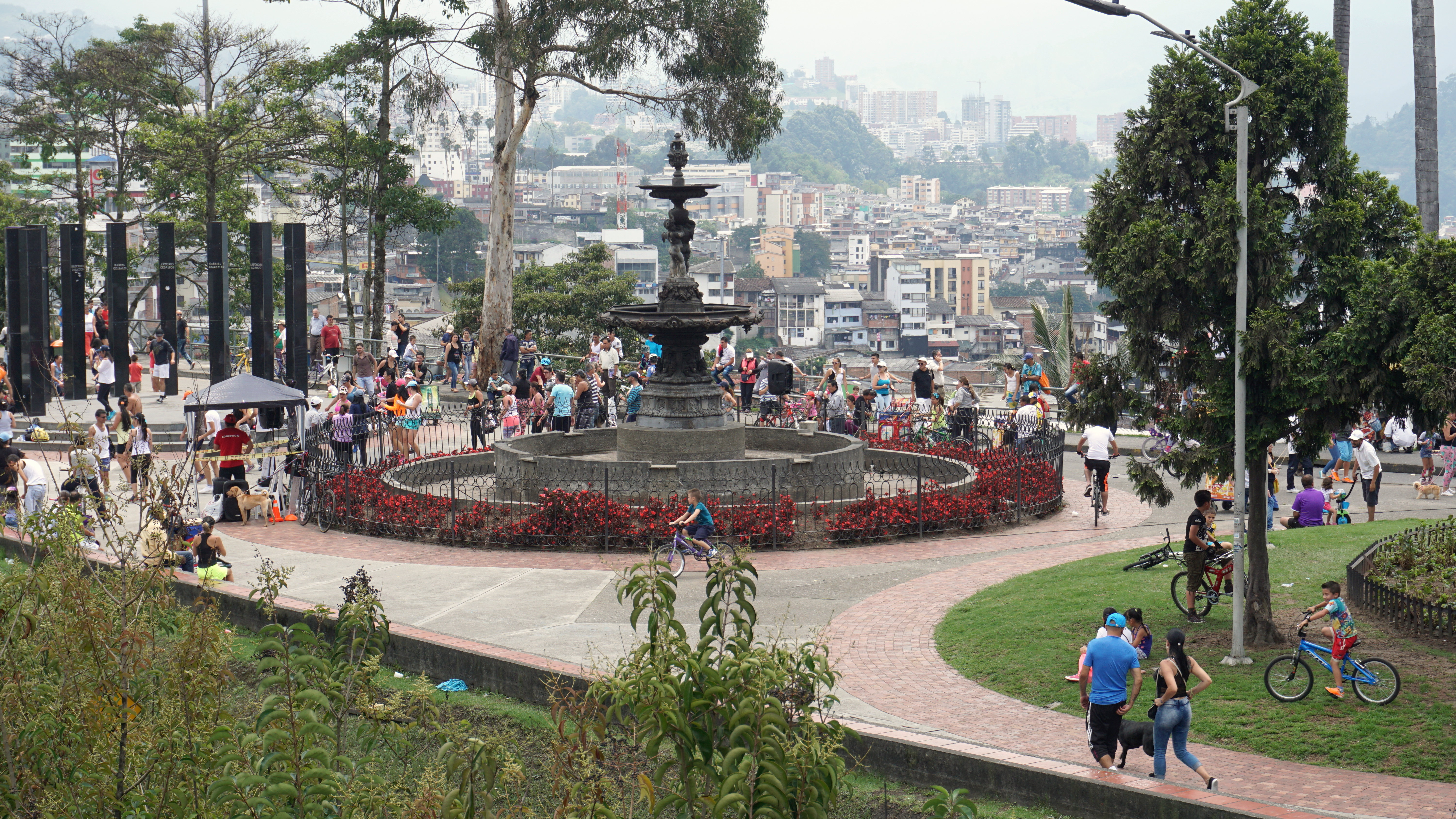 Parque Fundadores in Manizales